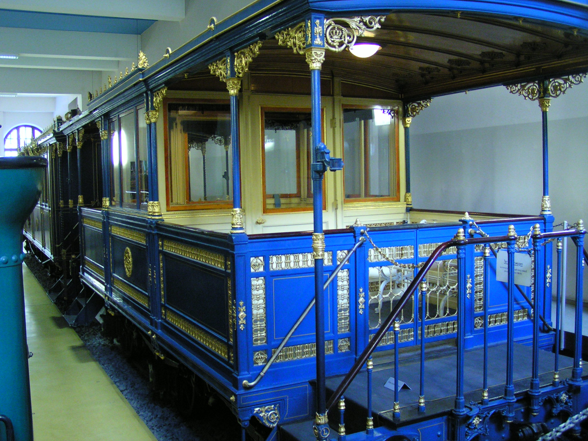 Special train of the Bavarian court, in the DB-Museum, Nuremberg, Germany